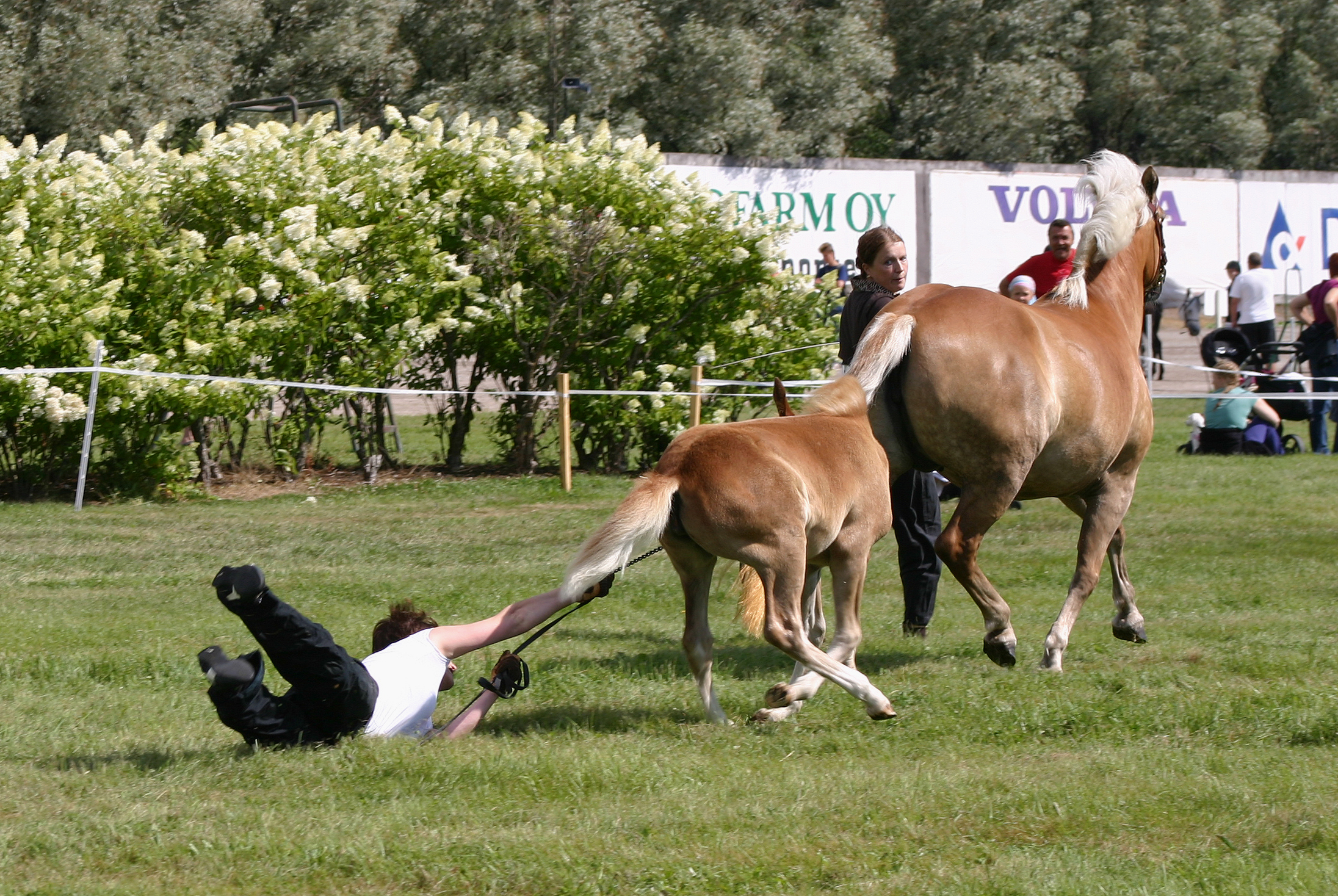 The foal misunderstood the purpose of showing some trot for the judges, and after a few harmless jumps left off at full gallop... The handler managed it-...almost. Nothing bad happened though, and the handler never let go of the lead.